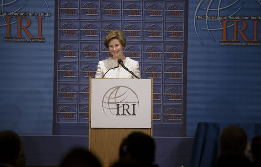 Mrs. Laura Bush delivers remarks during the International Republican Institute's 2006 Freedom Award dinner in Washington, D.C., Thursday, September 21, 2006. Mrs. Bush and Ellen Johnson Sirleaf, President of Liberia, were presented the 2006 Freedom Award which recognizes their work in encouraging women to participate in democratic process. White House photo by Shealah Craighead